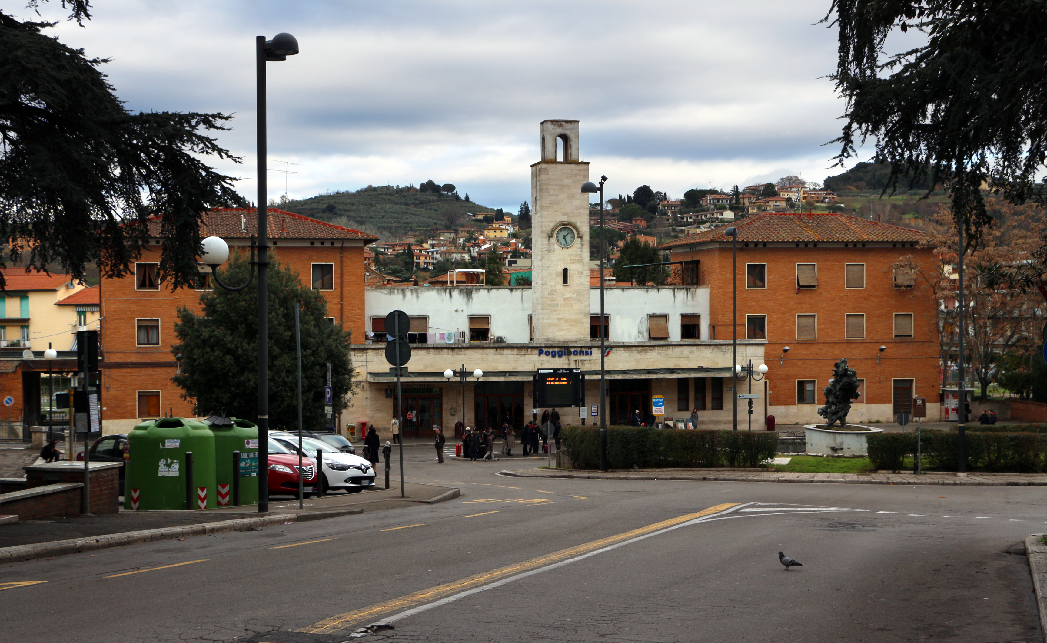 Poggibonsi-San Gimignano train station